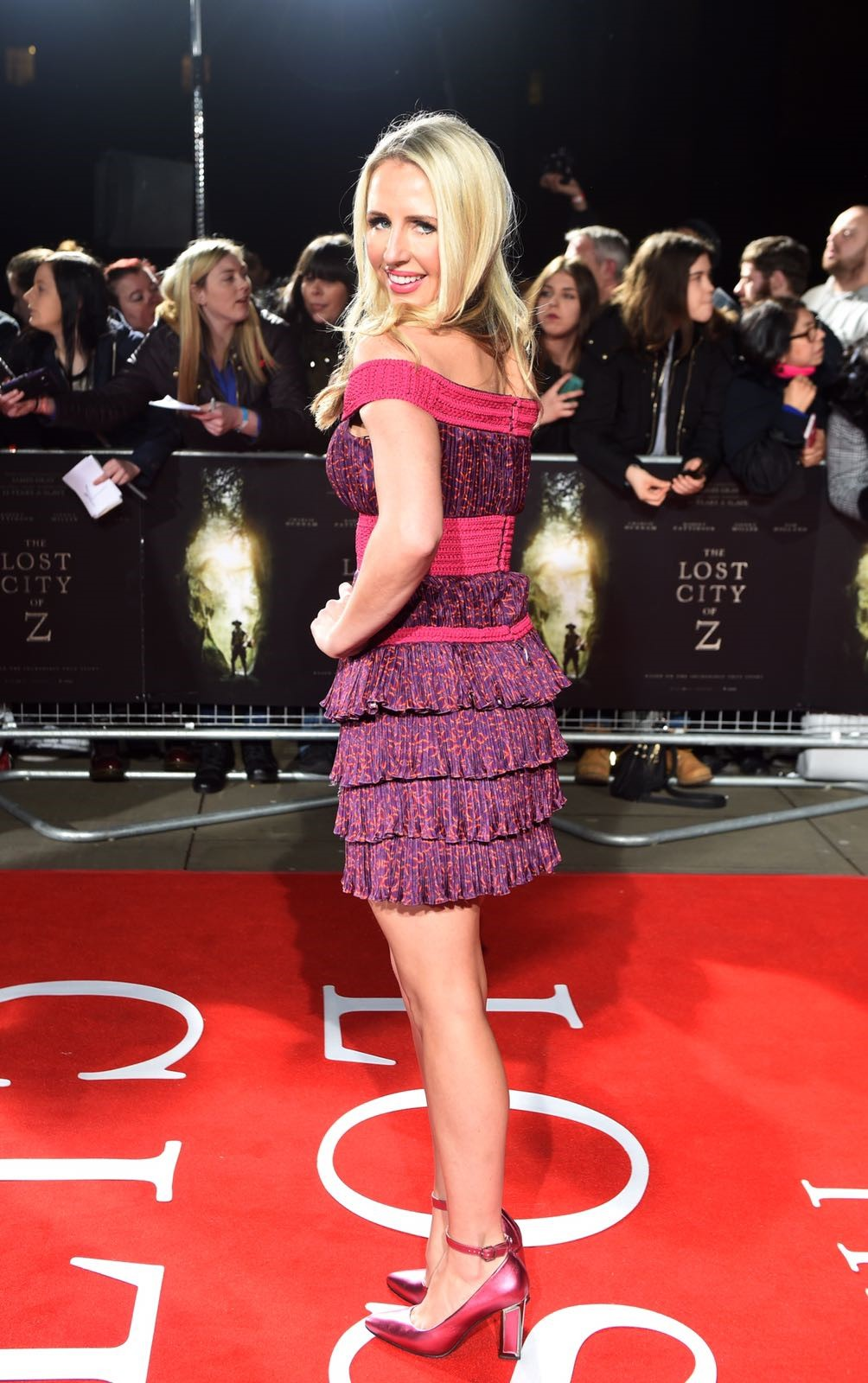 Naomi Isted at the Lost City of Z Premiere